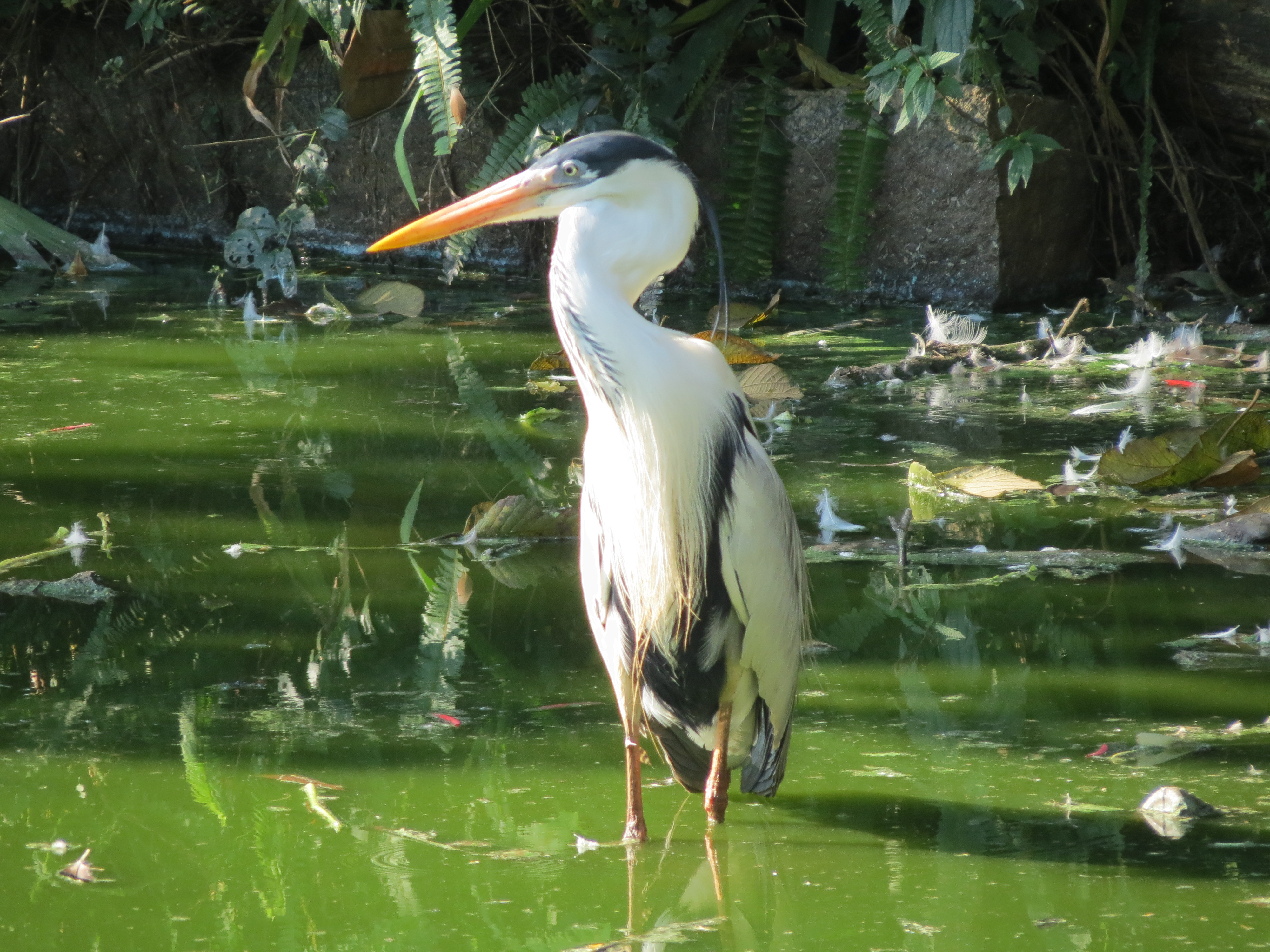 Cocoi heron (Ardea cocoi) in a lagoon, in São Paulo Zoo.